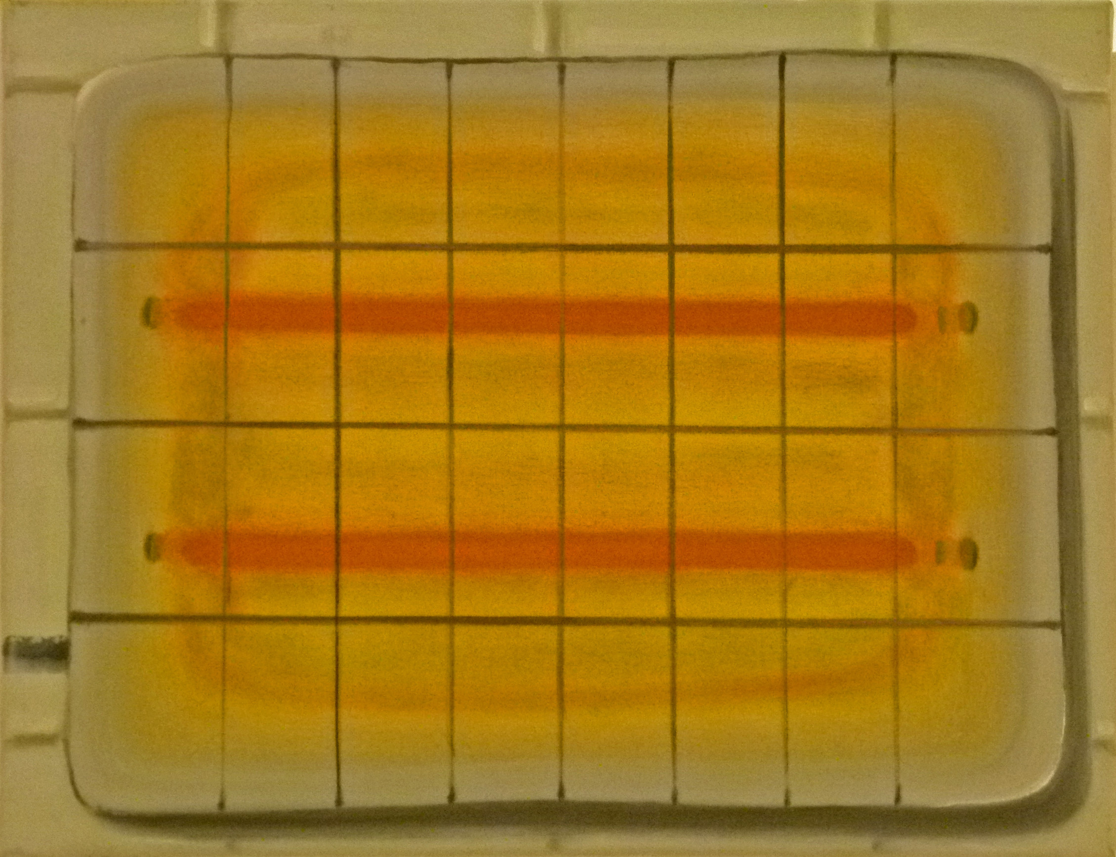 "Electric heater", oil on canvas (40 x 50 cm) post-modern painting by the Belgian artist Xavier Tricot